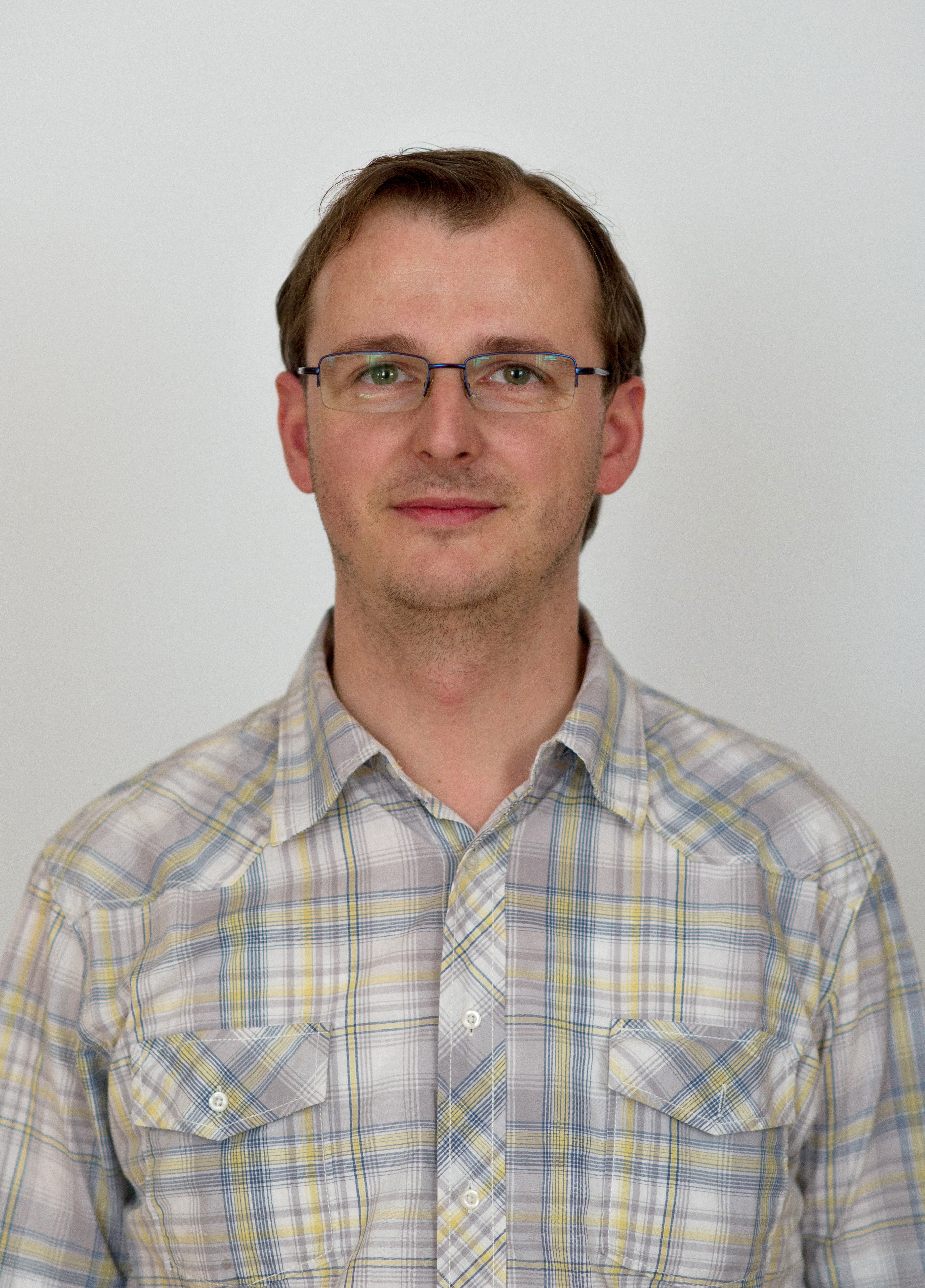 dr. Mário Sedlár v roce 2017